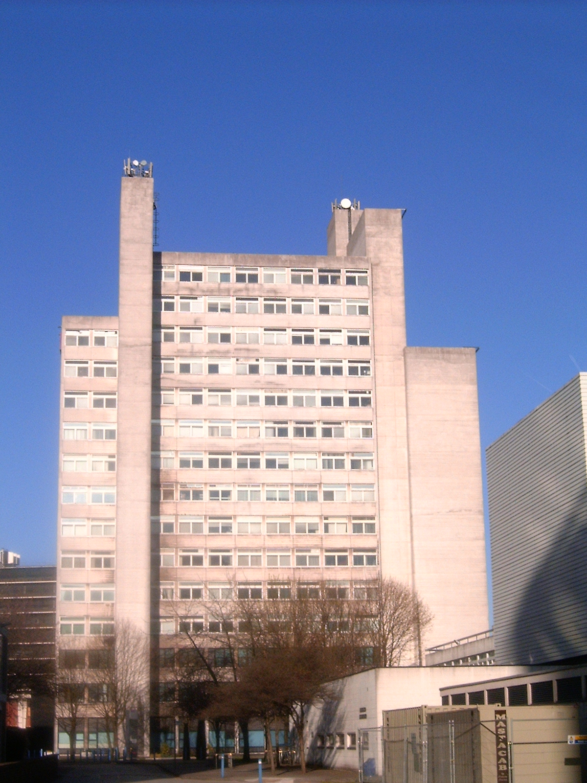 The Maths and Social Science Building at the University of Manchester